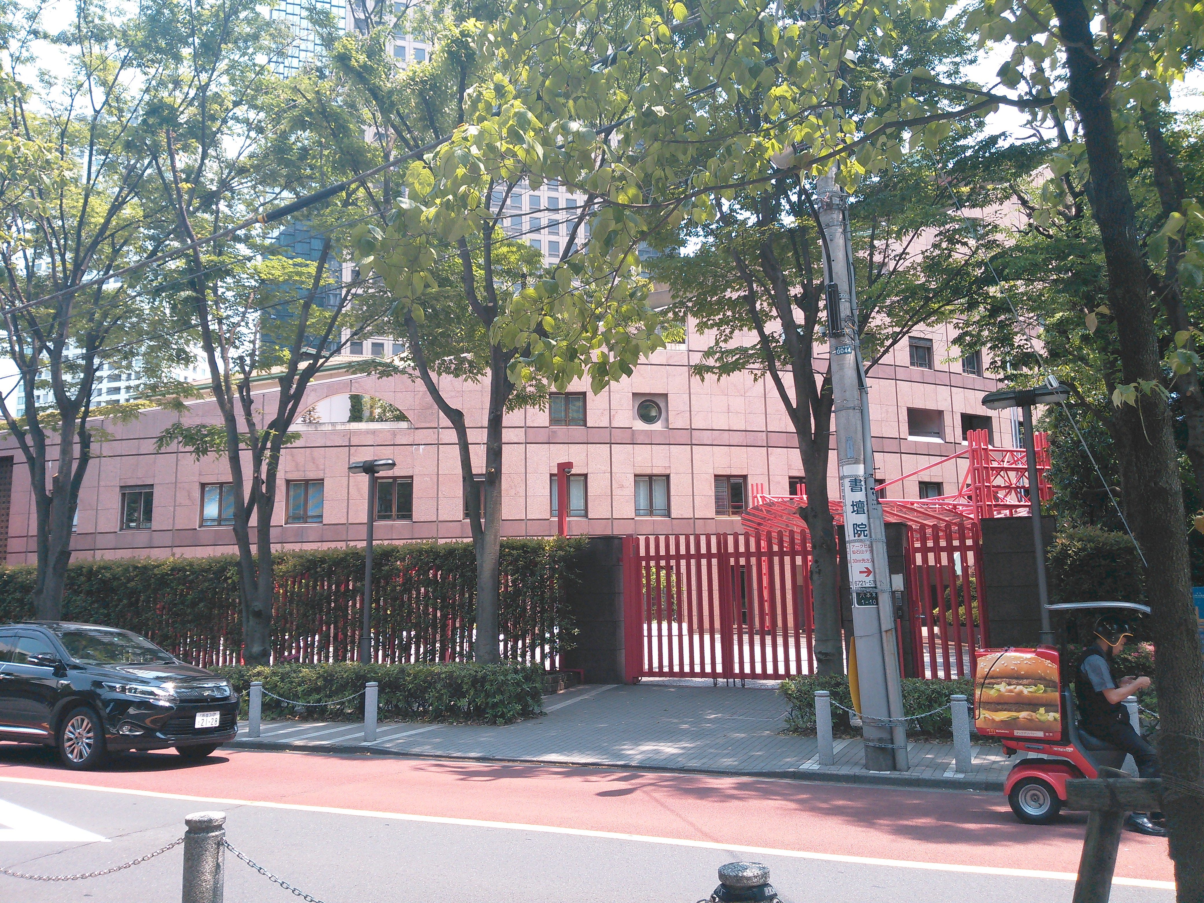 Embassy of Sweden in Tokyo, Japan